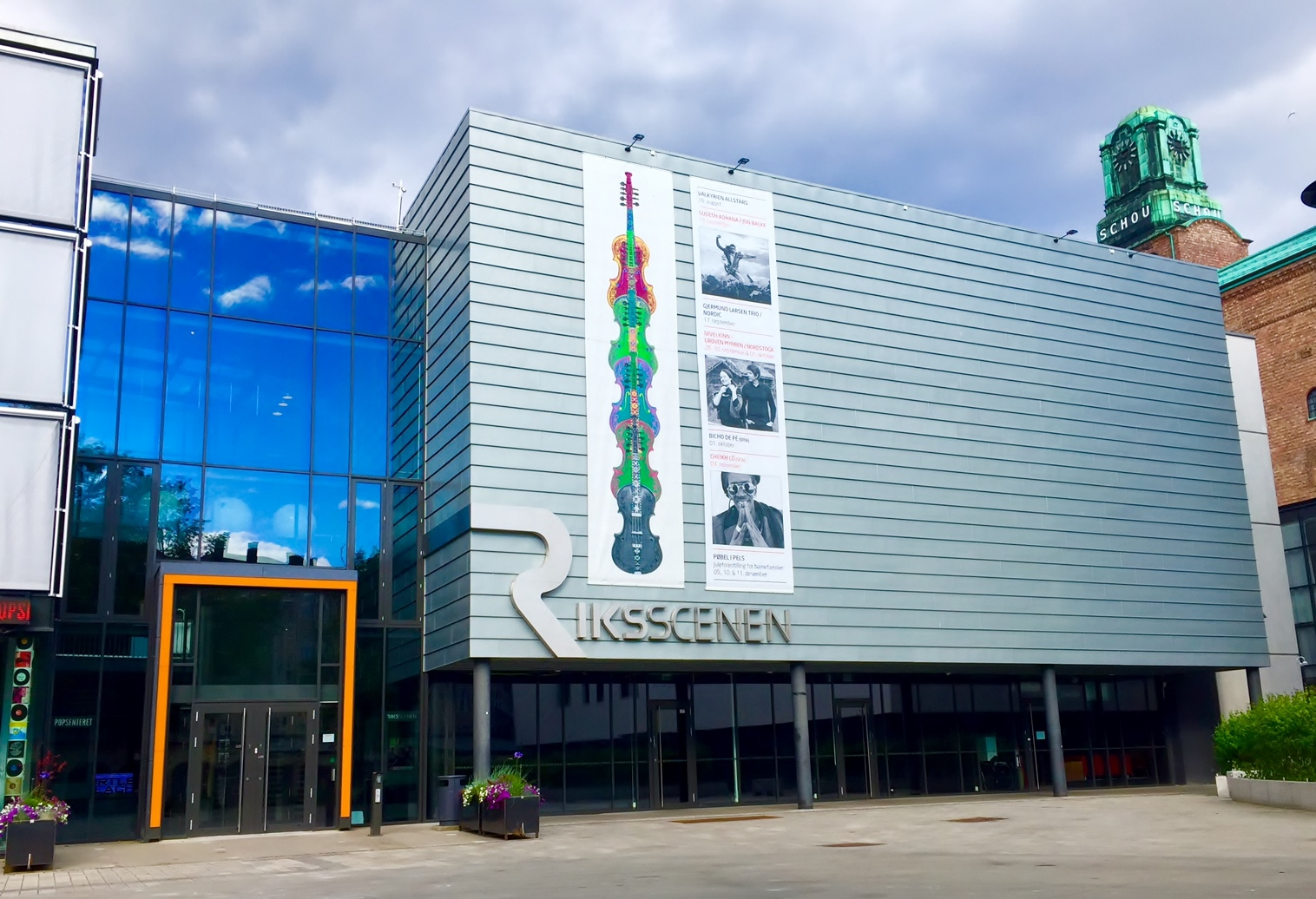 Riksscenen in Oslo